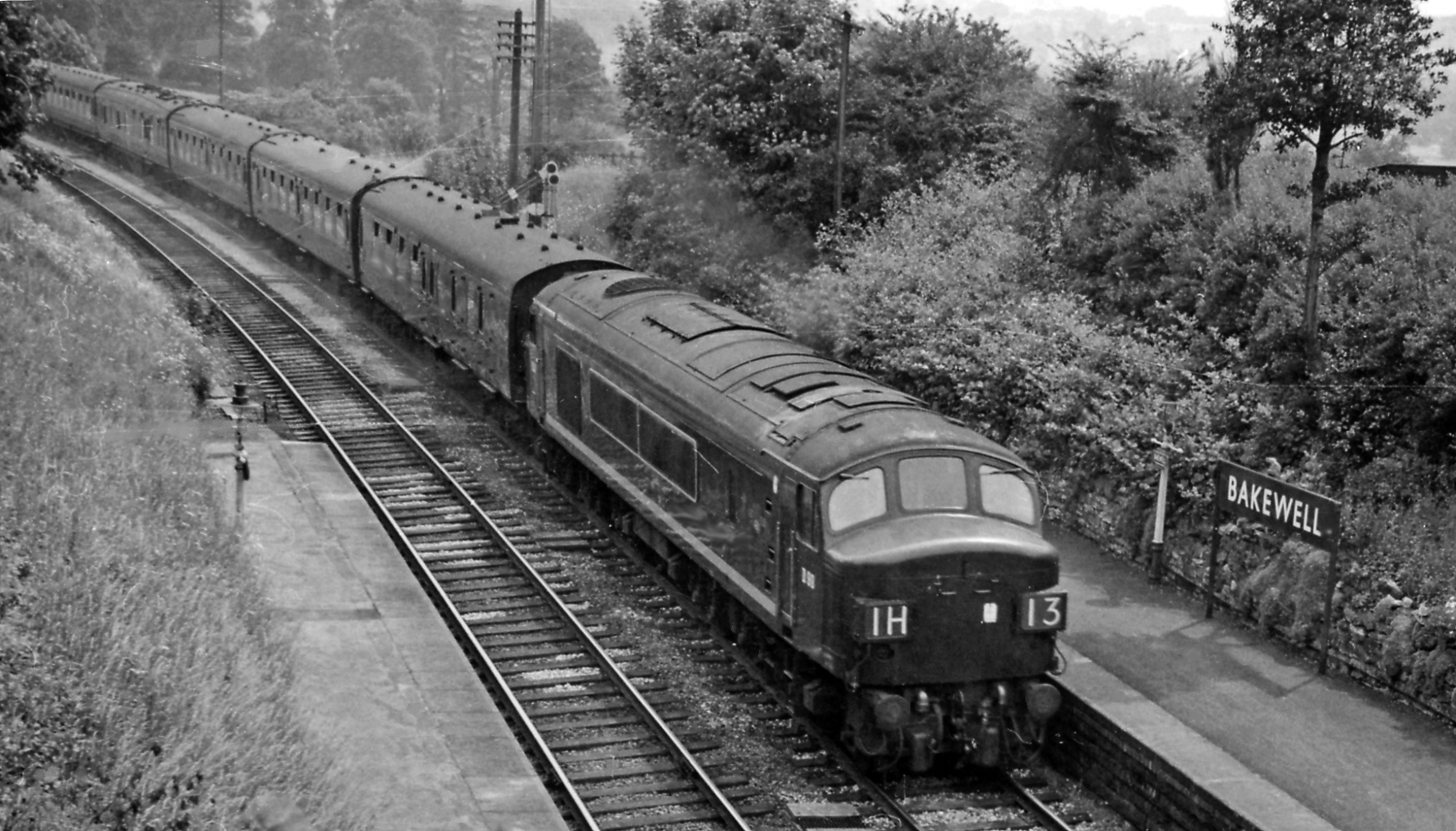 Bakewell Station, with diesel-hauled Down express. View SE, towards Matlock and Derby; ex-Midland Derby - Matlock - Buxton/Manchester Peak Line (closed 6/3/67, Matlock - Buxton). The 10.25 St Pancras - Manchester Central was headed by Type 4 'Peak' class 2,300hp 1-Co-Co-1 Diesel No. D90.